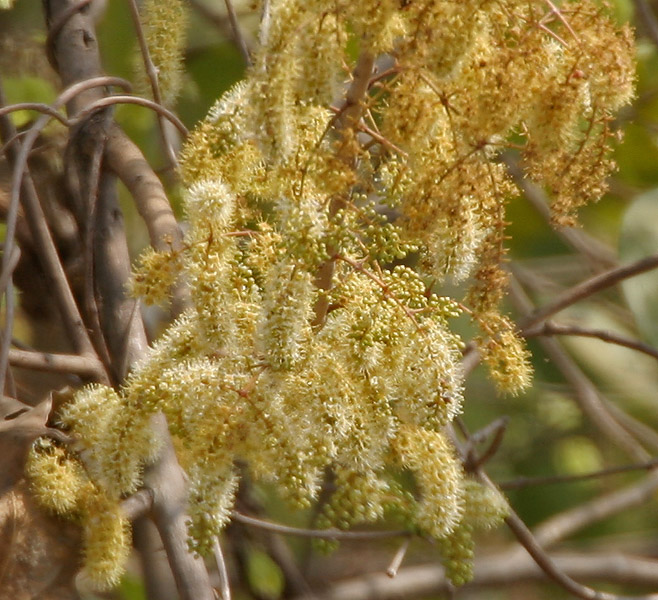 Piluki, oval-leaved wheel creeper, Dhavshira, Pewar Wel, Pilokha, Verragay, Odaikodi, Vennangukodi, Geddepeyyeru, Shirtal Boddi, Putangi, Yada-tige or ulavai maram Combretum albidum in Kinnerasani Wildlife Sanctuary, Andhra Pradesh, India.